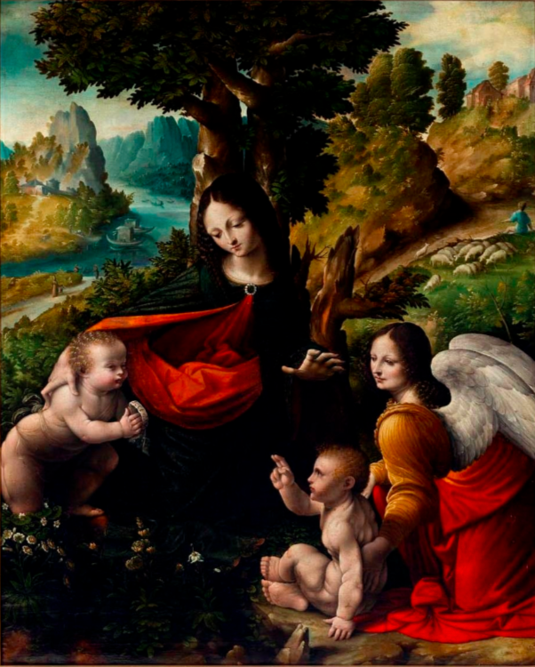 Cesare Magni - The Virgin of the Rocks (after Leonardo da Vinci) - between 1520 and 1525 - Naples, Capodimonte Museum